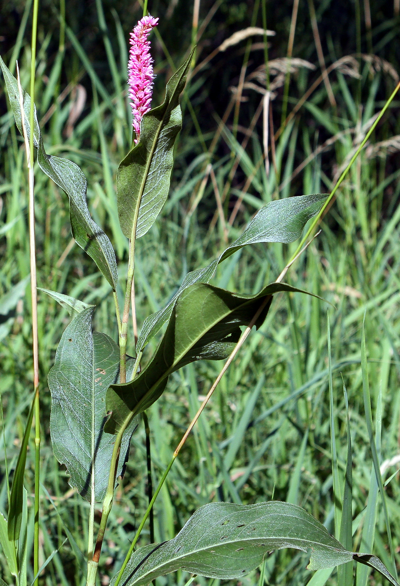 Self made picture of Polygonum coccineum taken in Minnesota in August. Plants growing about 5 feet tall. Found in a dry pond, the normal form of this plant for this pond is the aquatic form with the leaves floating on the surface of the water, but its been a dry year so no water. Plants are upright growing and found with swamp milkweed, large sedges and Alisma subcordatum and Sagittaria rigida.